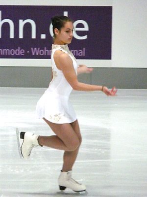 Stasia Rage during her short program at the 2007 Nebelhorn Trophy.